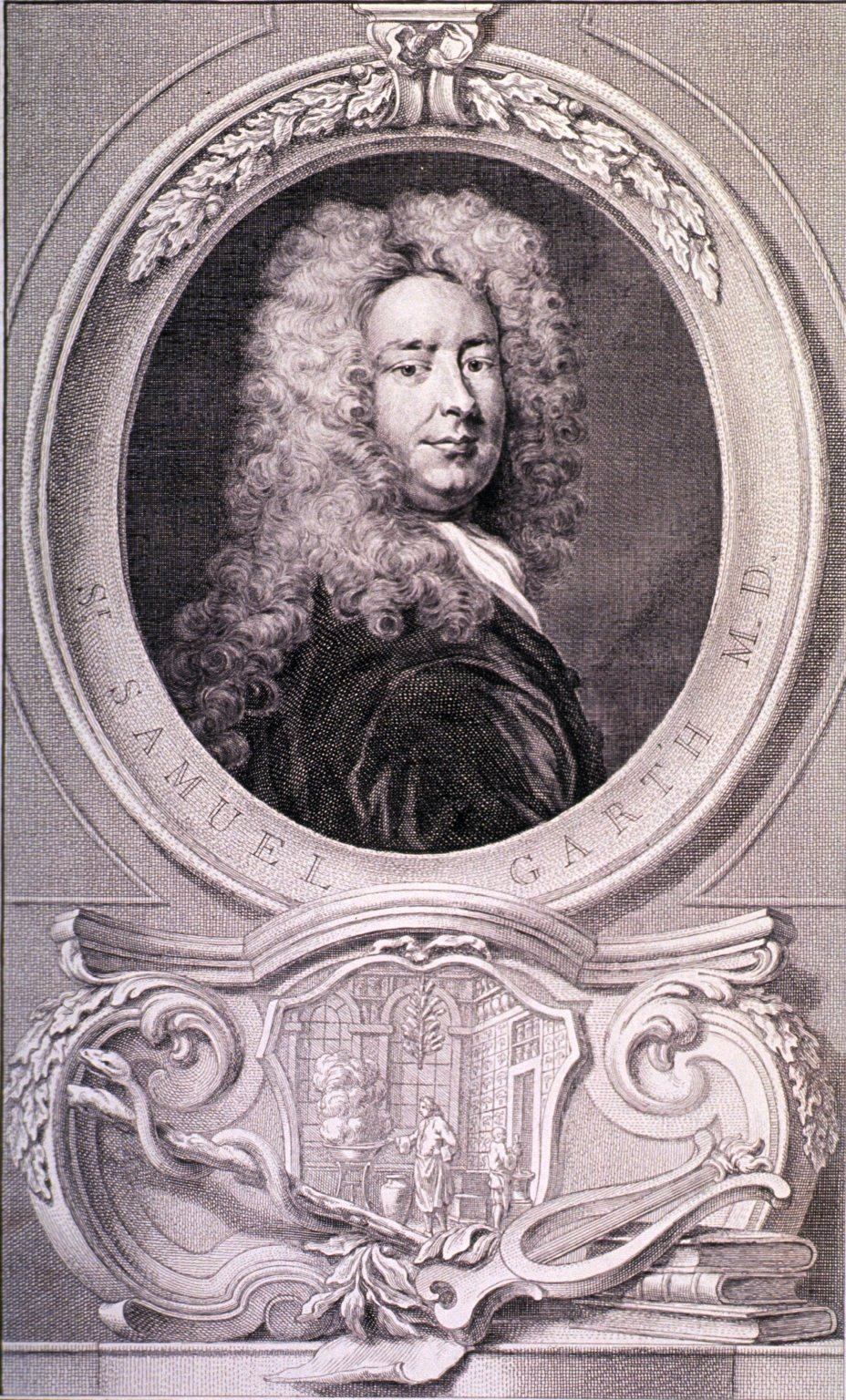 Samuel Garth, English physician and poet